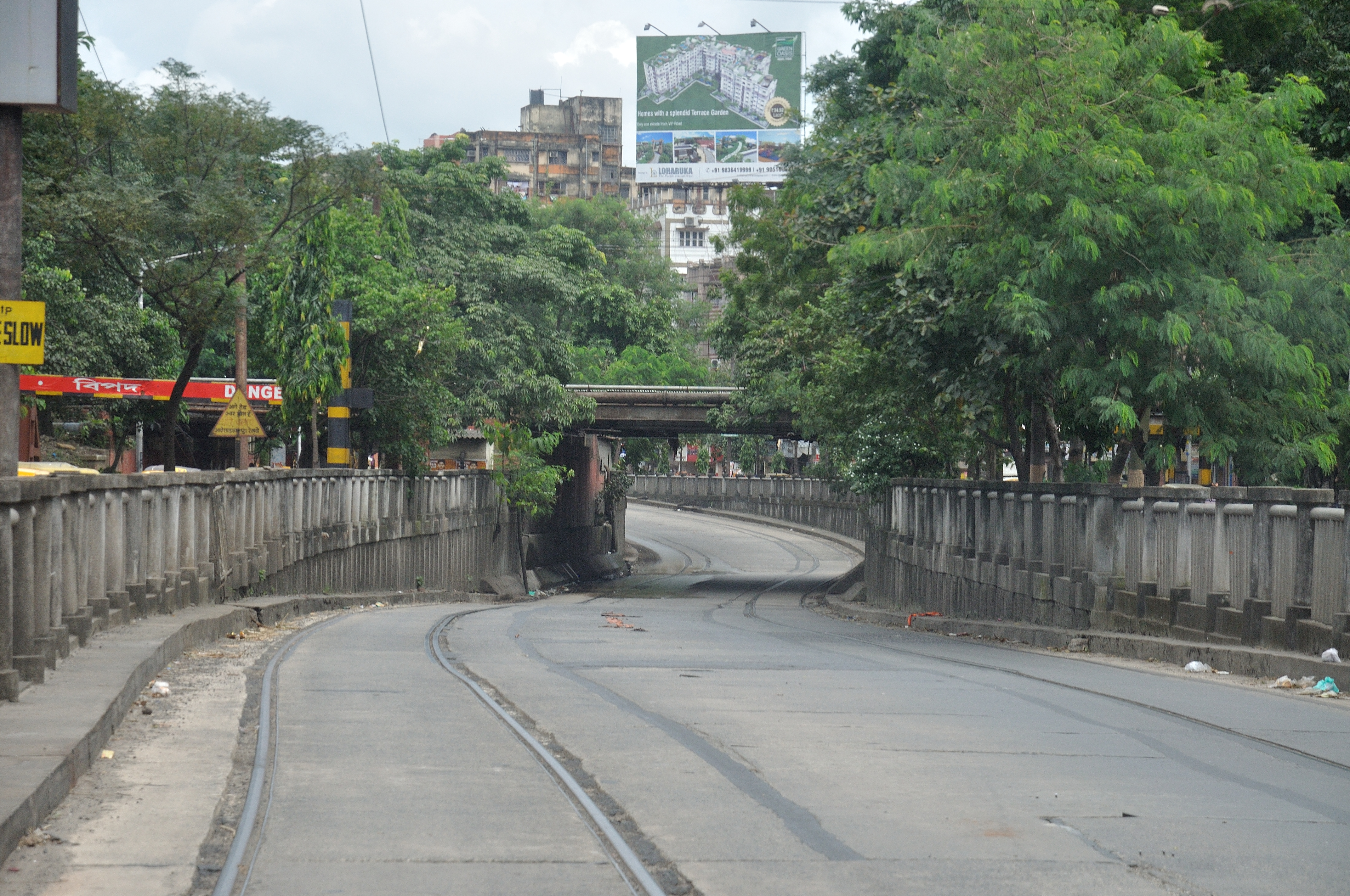 Photographed in Kolkata.